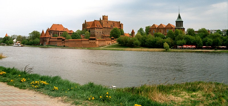 The castle of Malbork, Poland.